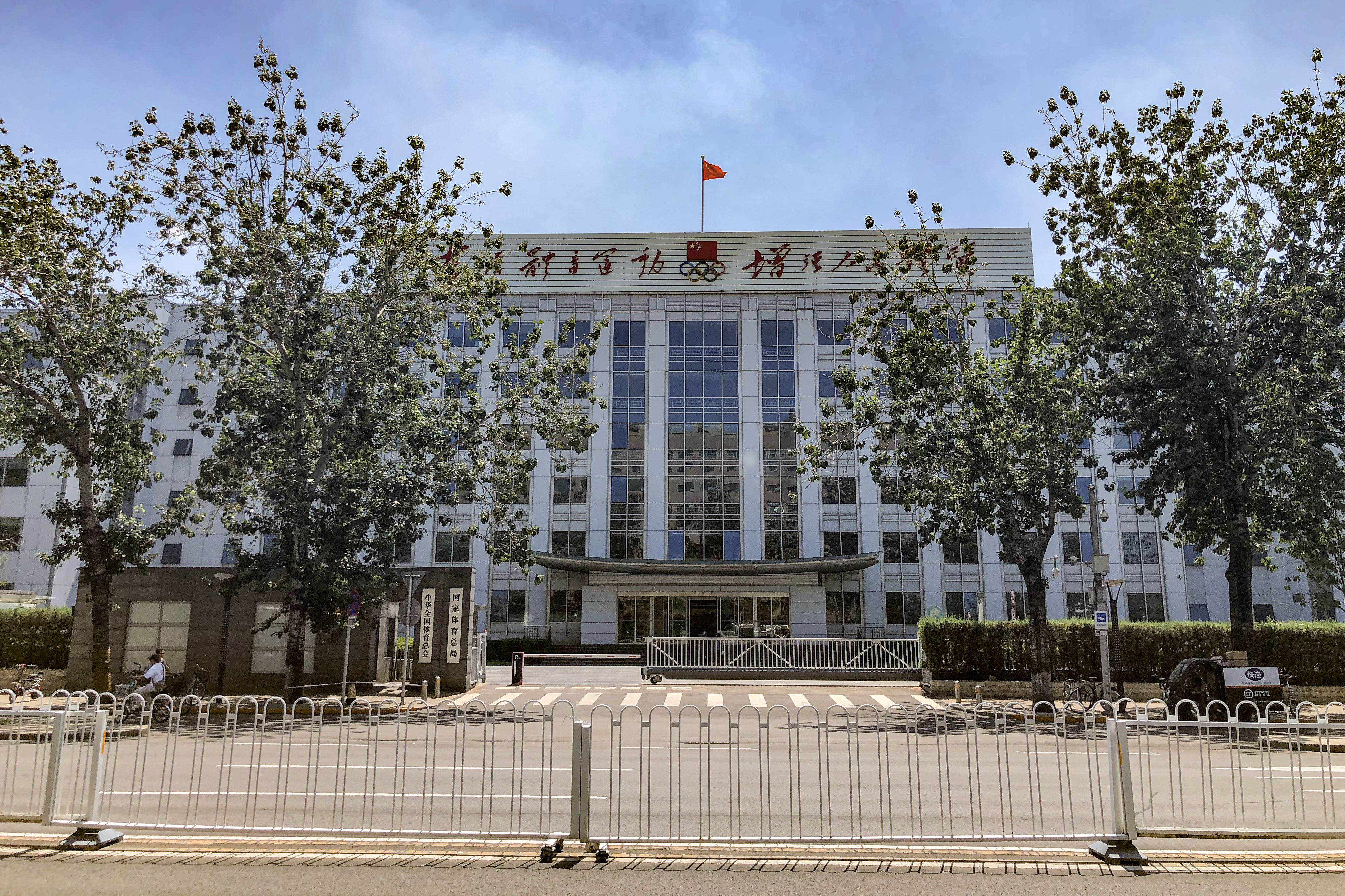 Now we know why it is Tiyuguan Road...